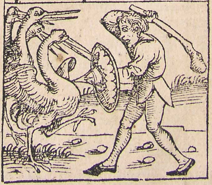 Nuremberg chronicles - Strange People - Pygmy (XIIr) - Illustrations from the Nuremberg Chronicle, by Hartmann Schedel (1440-1514)